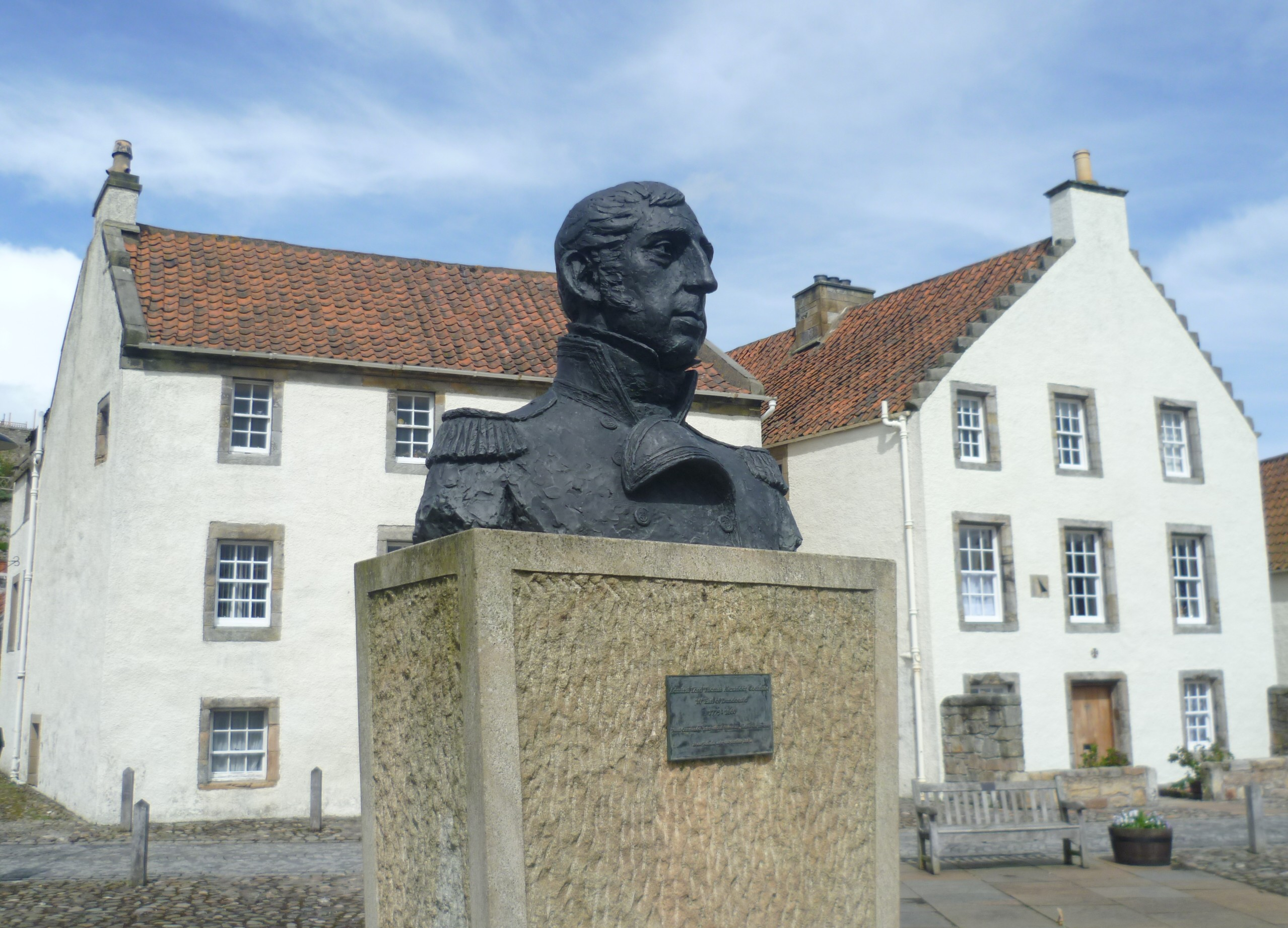 Admiral Cochrane bust, Culross, Fife